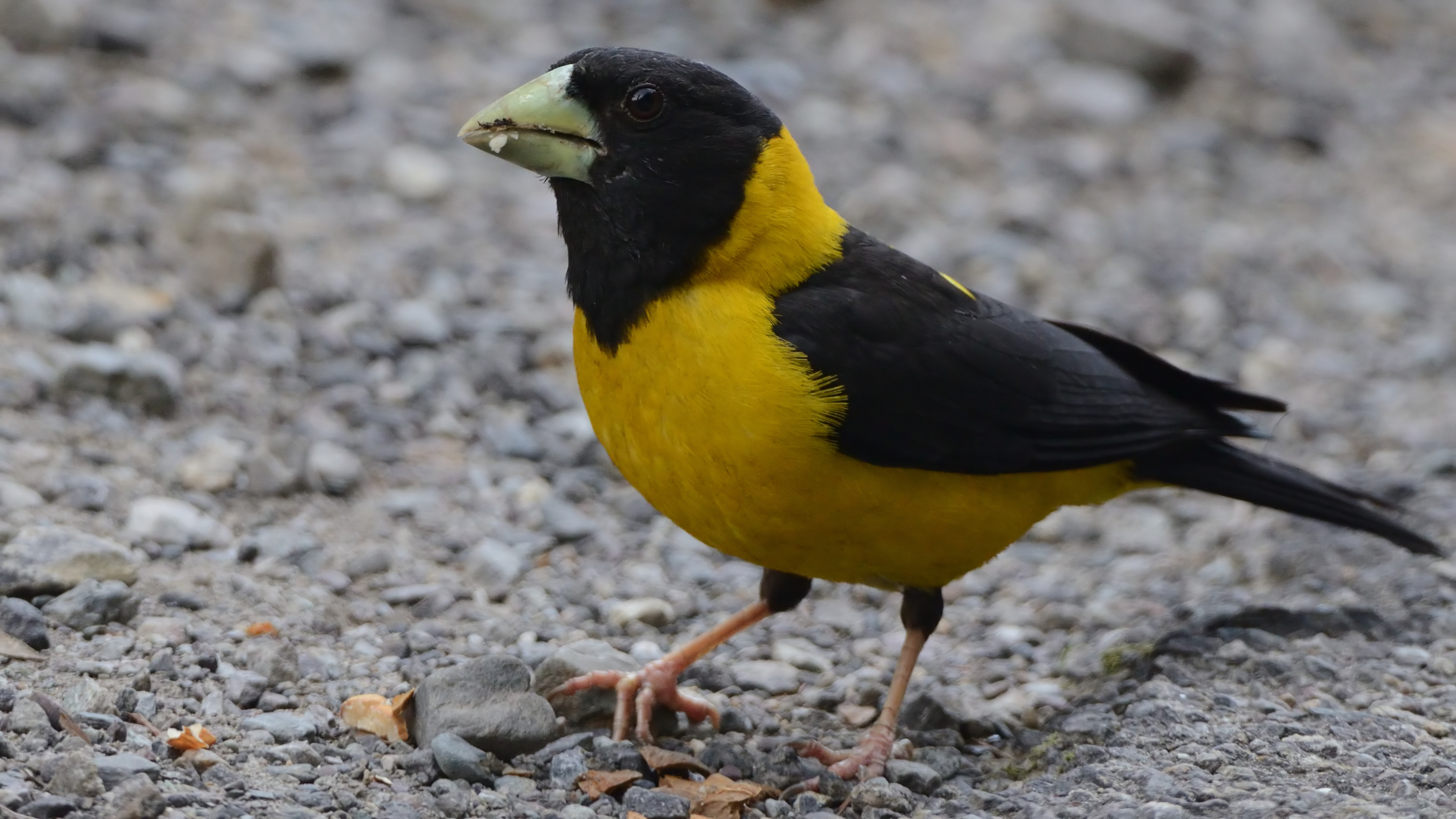 Black and yellow Grosbeak (Mycerobas icterioides) from Dhanaulti, Uttarakhand, India